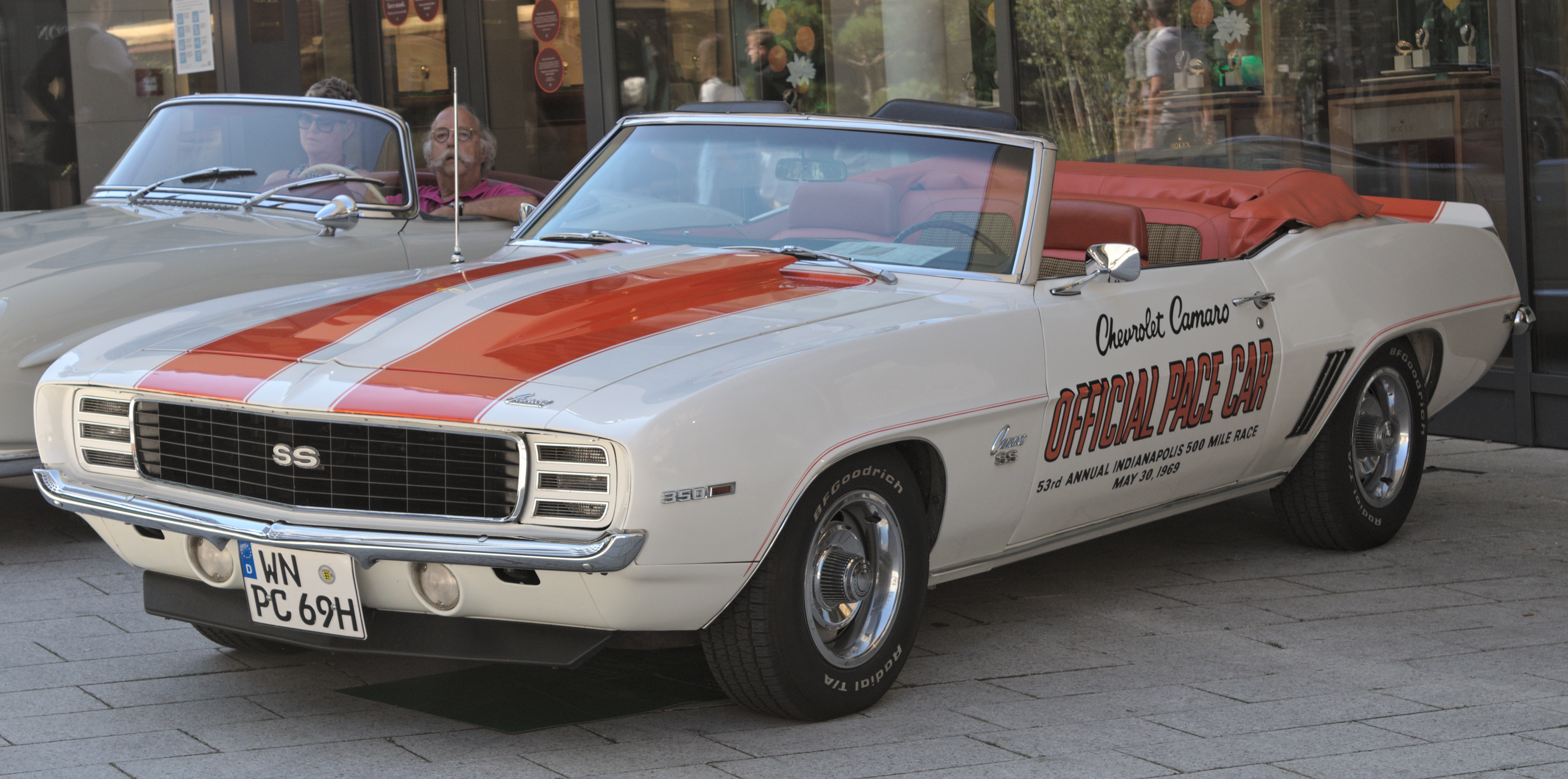 Chevrolet_Camaro_1969_Indianapolis_500_pace_car in Stuttgart